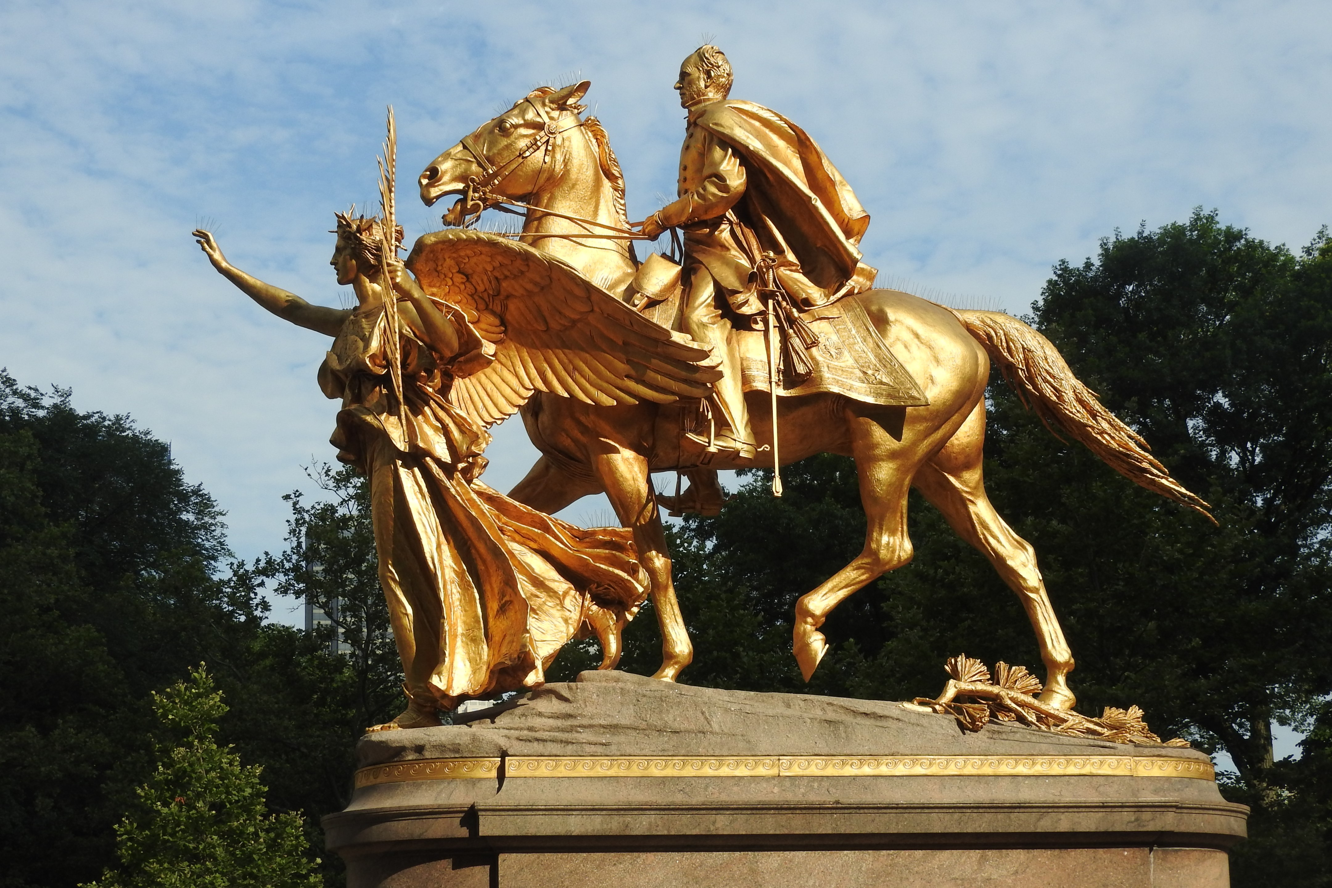 Looking northwest at freshly gilded monument on a sunny summer morning